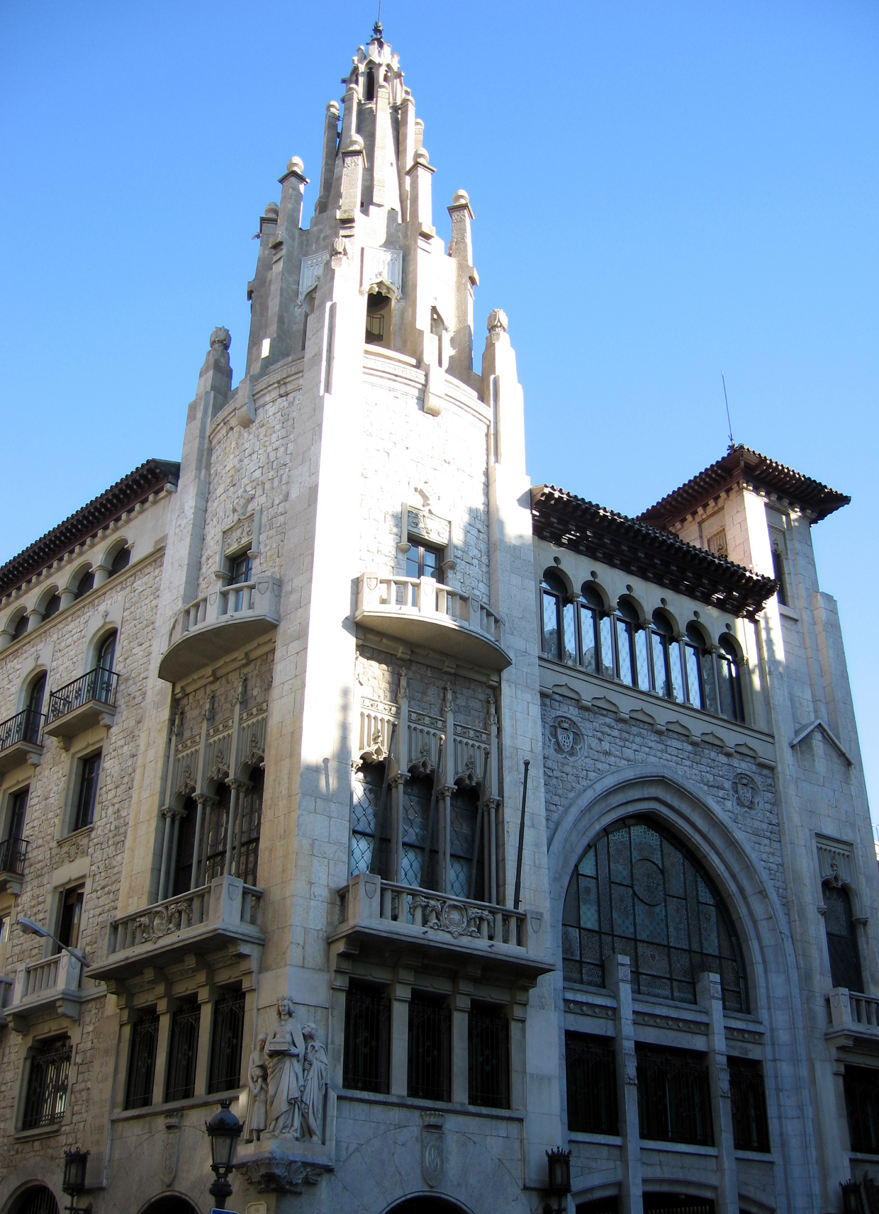 Building “Caixa de Pensions” by the architect Enric Sagnier, errected 1917 in the Via Laietana in Barcelona (Catalonia).